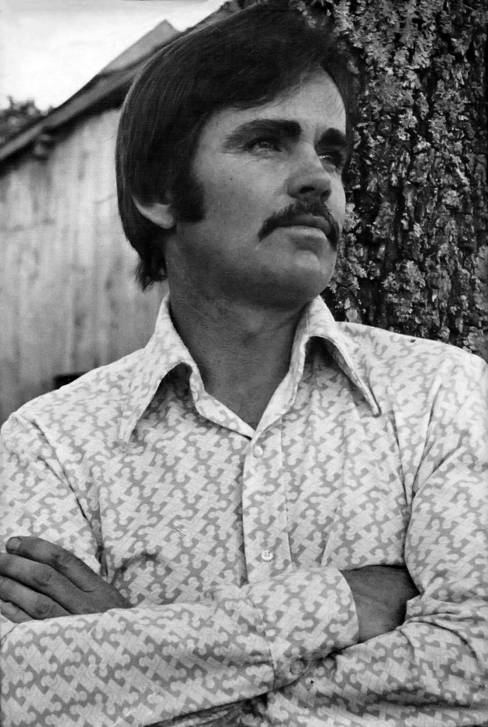 Photo portrait of Cormac McCarthy used for the first-edition back cover of Child of God (1973).